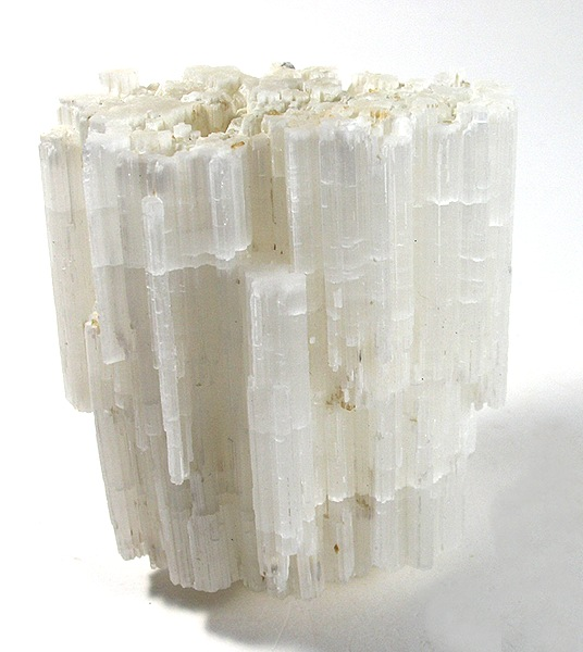 Beryllonite Locality: Darra-i-Pech (Pech; Peech; Darra-e-Pech) Pegmatite Field, Nangarhar (Ningarhar) Province, Afghanistan (Locality at ) Size: small cabinet, 7 x 6.4 x 4.1 cm Beryllonite A large and interesting specimen of this rare species, with vertical striations running up and down. 7 x 6.4 x 4.1 cm